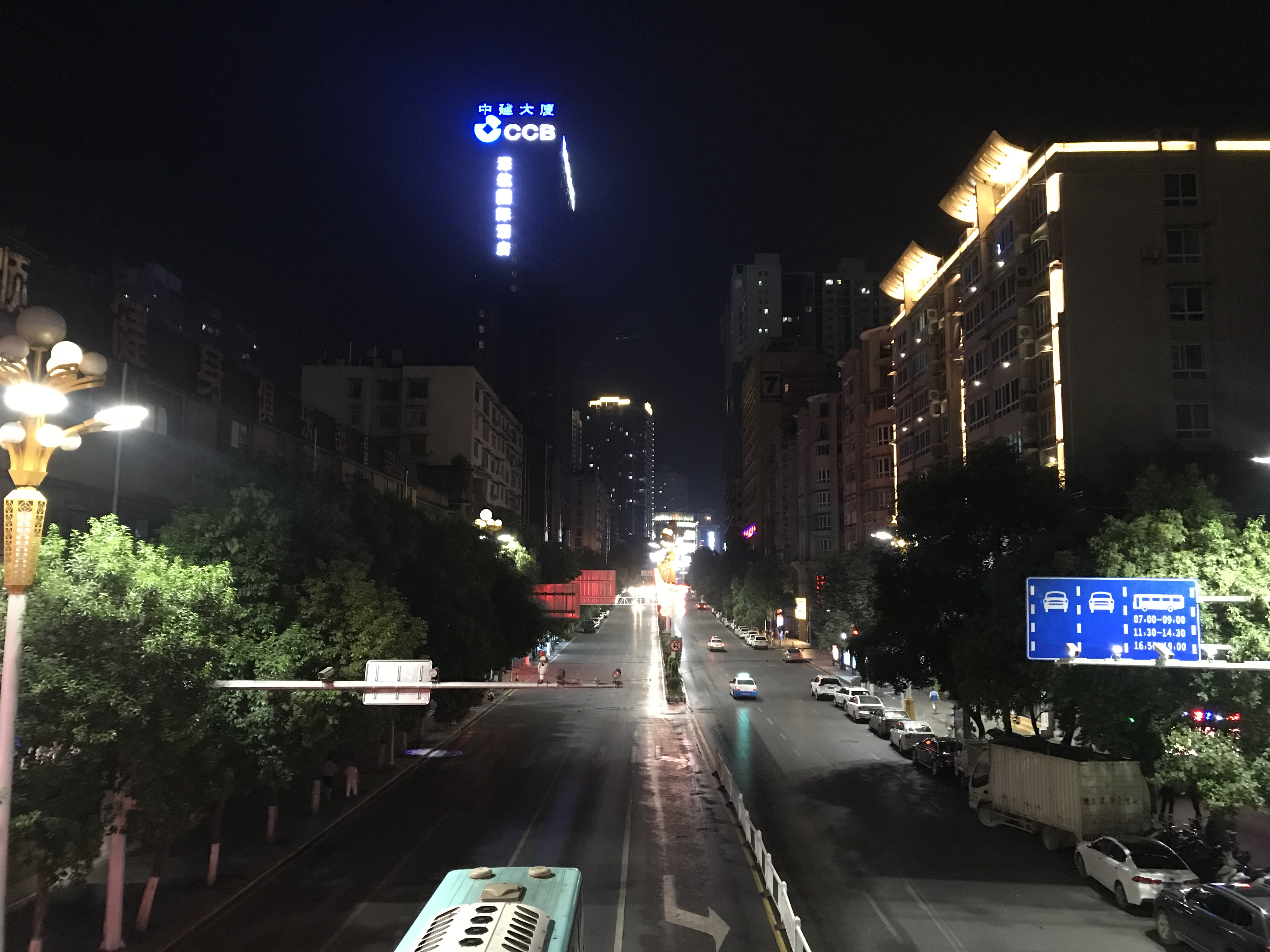 201908 Beijing Road, Zunyi